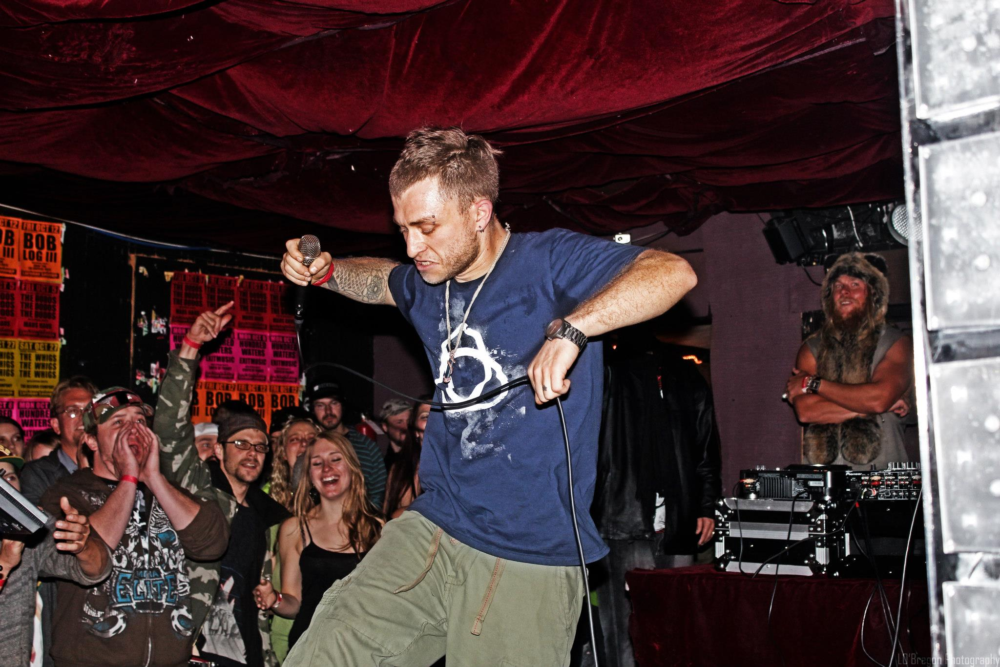 Dub FX at Larimer's Lounge (Denver, CO) 10/06/12